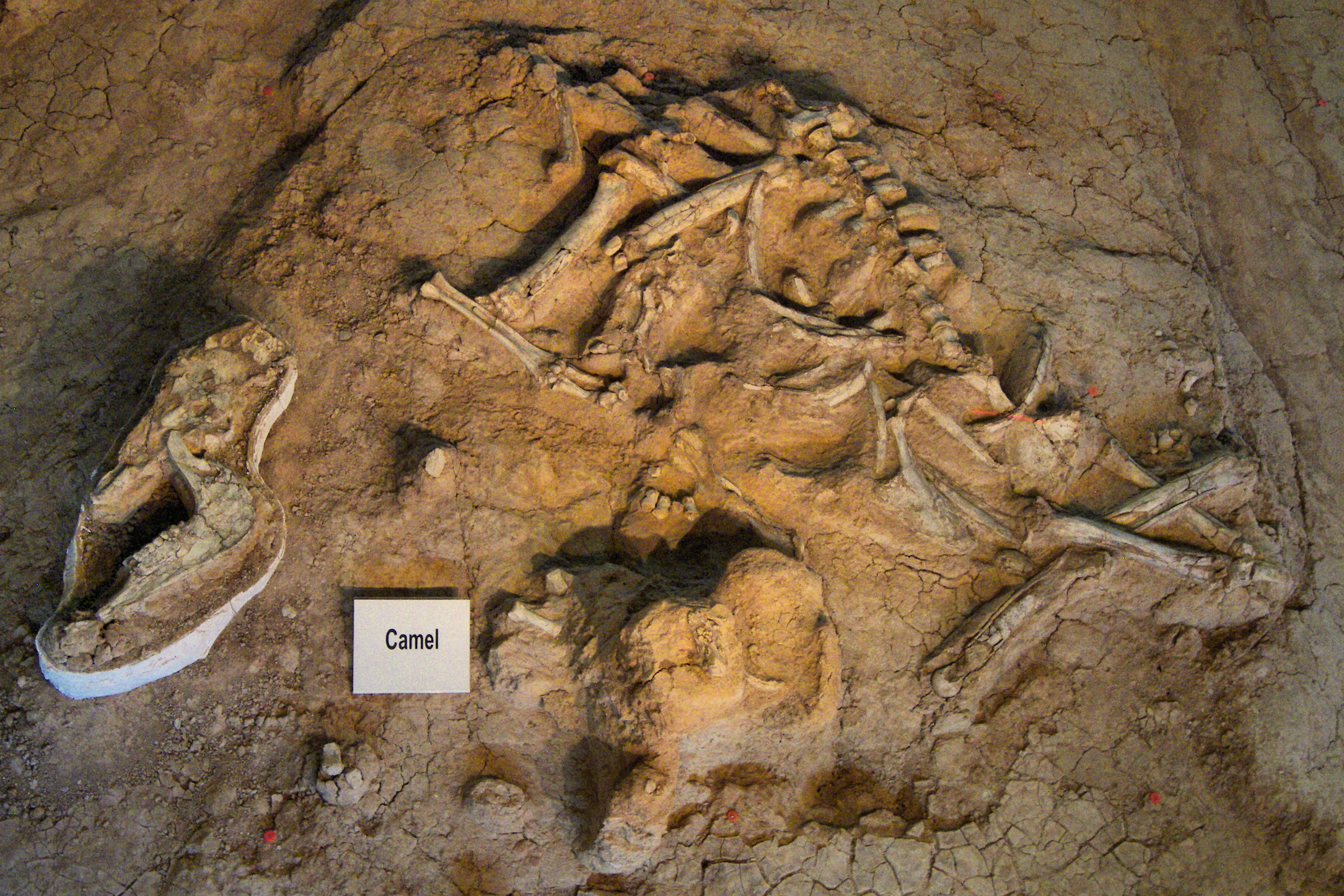 Camel (Camelops hesternus) remains at the Waco Mammoth National Monument. The camel was buried 68,000 years ago.